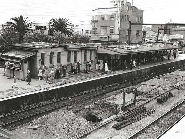 Hurstville Railway Station - showing construction of shopping complex Dated: June 1958 Digital ID: 17420_a014_a0140001087 Rights: We'd love to hear from you if you use our photos. Many other photos in our collection are available to view and browse on our website using Photo Investigator.